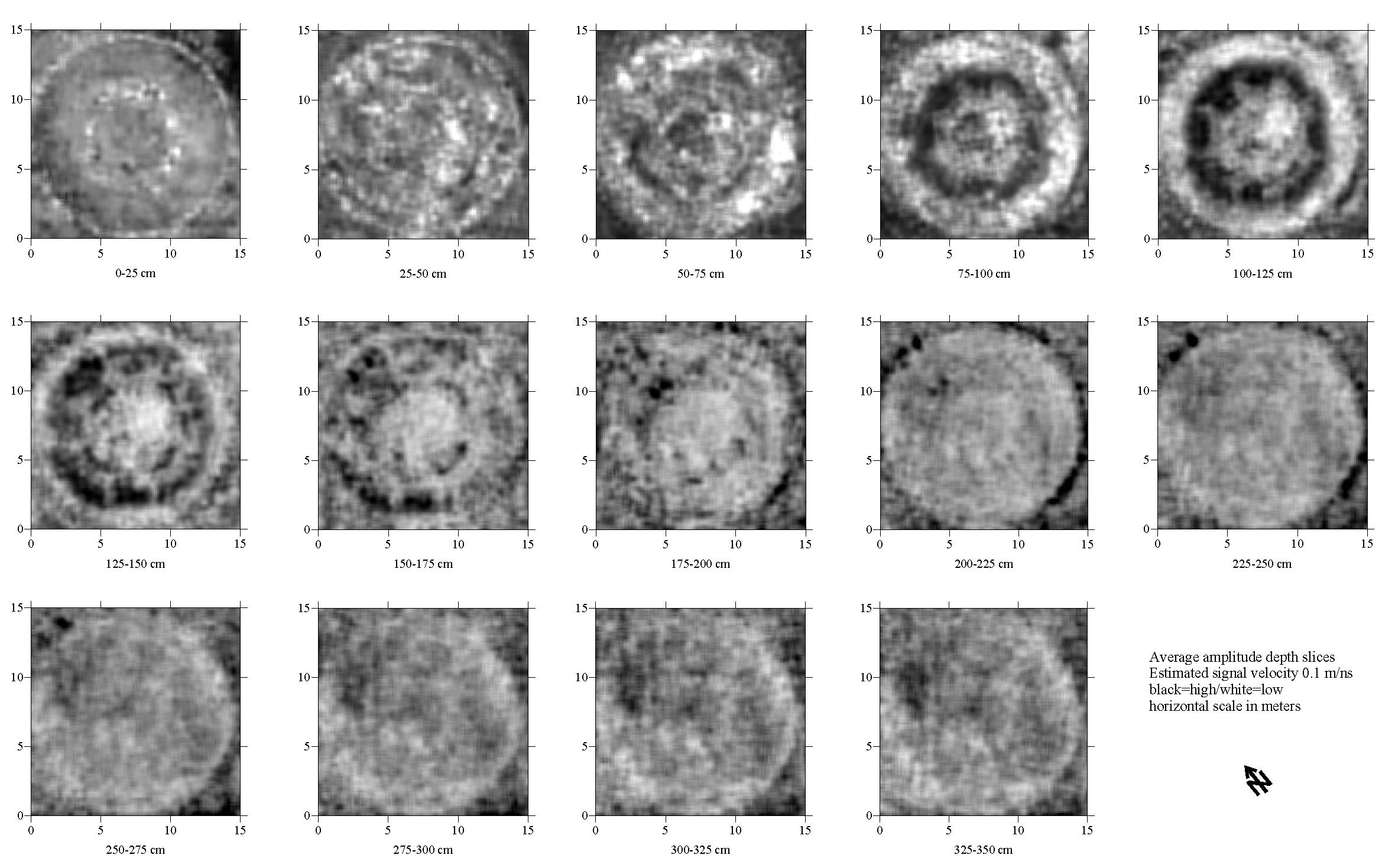 Ground Penetrating radar depth slices of an underground structure. Plaview maps isolating specific depth are constructed from many lines of data collected at close intervals. The structure depicted is a crypt at an historic cemetery in Saint Paul, Minnesota, USA.